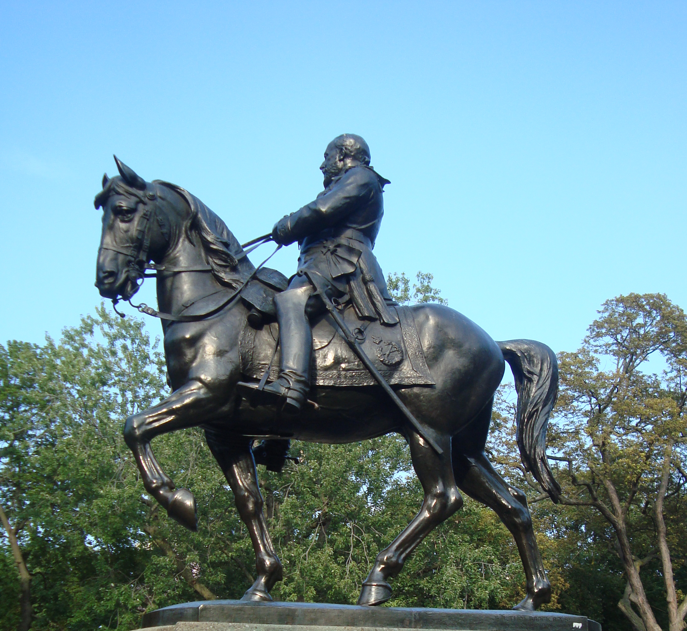 King Edward VII Statue, Queen's Park, Toronto, ON.